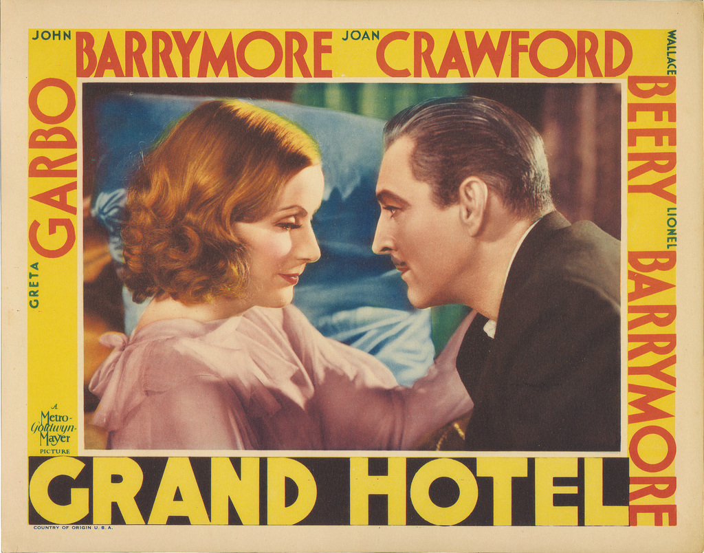 Lobby card for the 1932 film Grand Hotel.